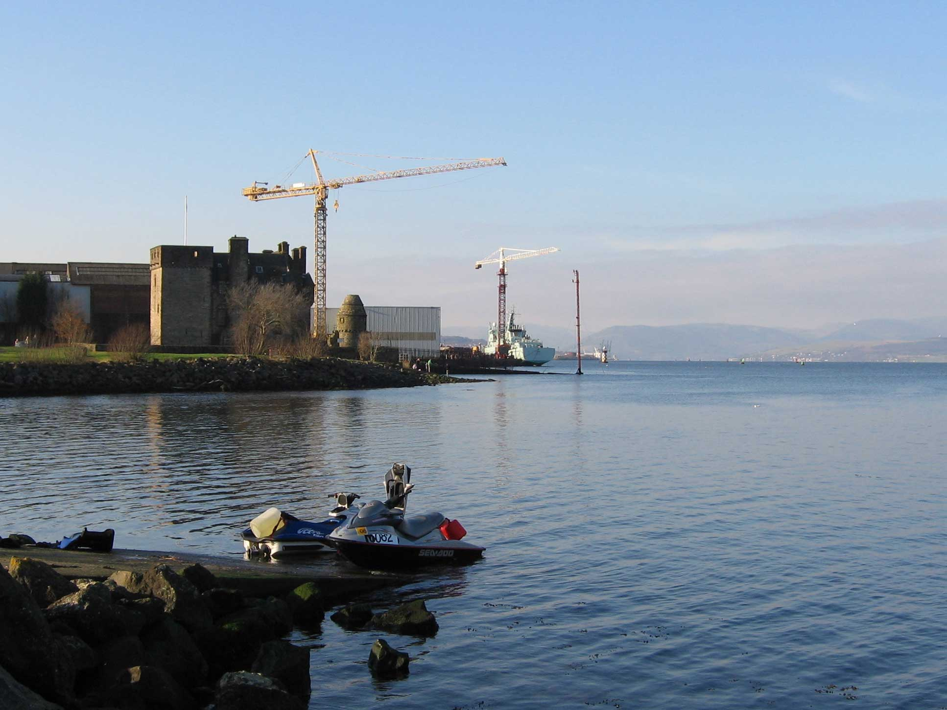 Newark Castle, Port Glasgow and Ferguson Shipbuilders, the last shipyard on the Lower Clyde